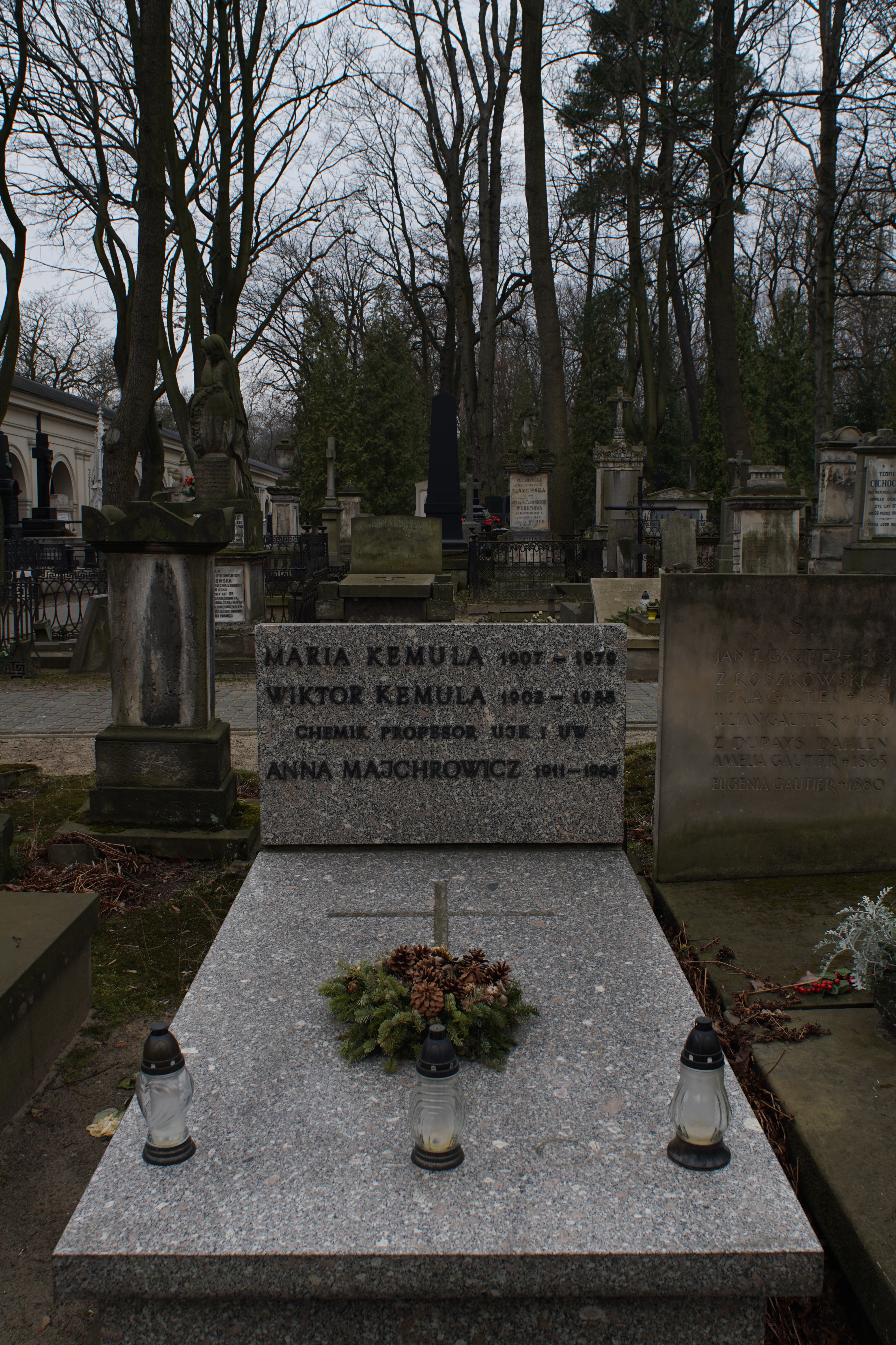 The grave of Wiktor Kemula at the Powązki Cemetery (section 6, row 5, grave 27)